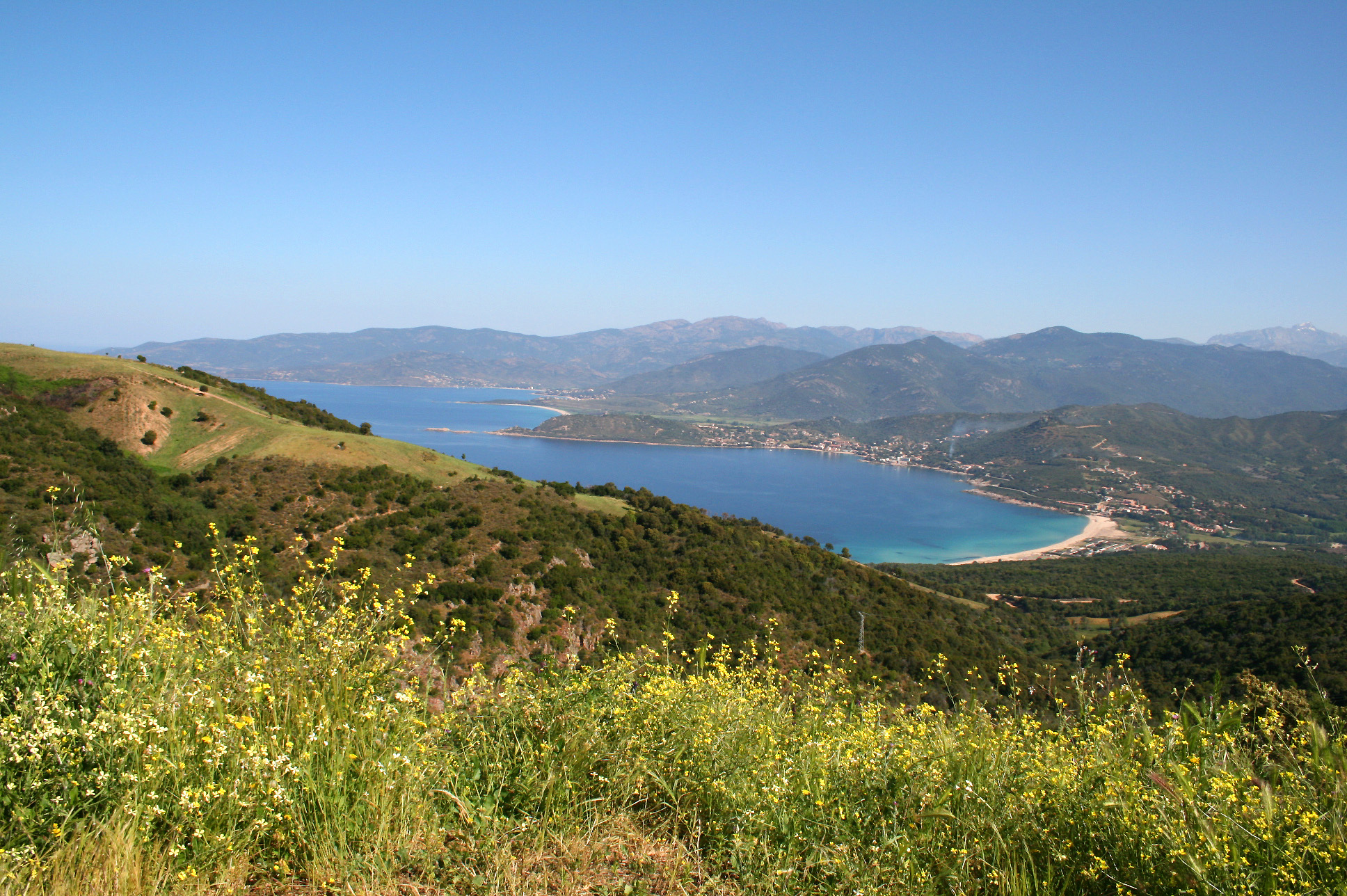 Calcatoggio, France - Corse du Sud the Gulf of the Liscia and the Tiuccia beach seen from the St. Bastiano mountain pass. Walon: Calcatoggio, li Golfe dol Liscia èt l'plâje di Tiuccia vèyus dispôy li col di S. Bastiano.